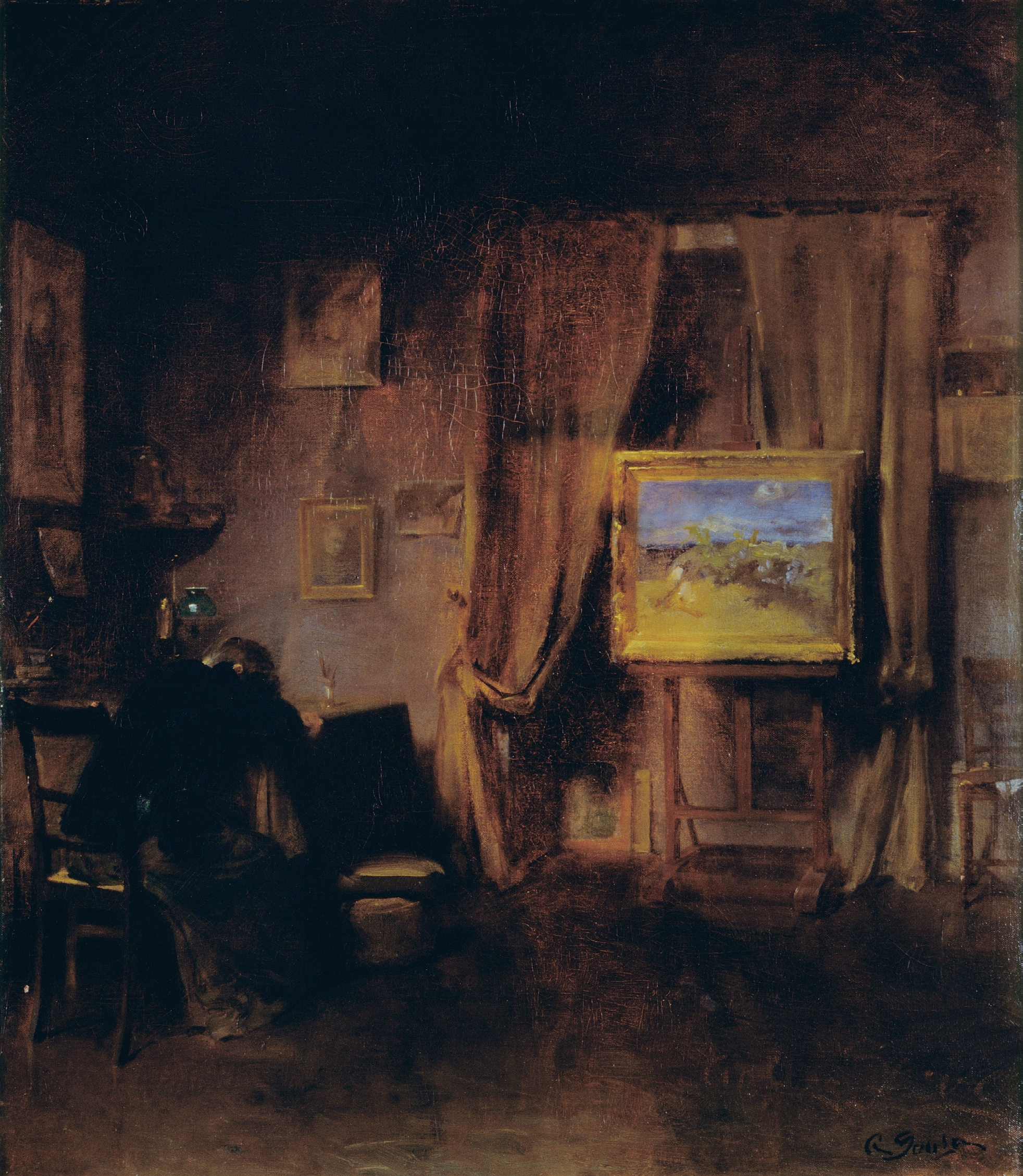 In the Studio (c. 1916), by Aurélia de Sousa. Currently in the National Museum of Contemporary Art, in Lisbon, Portugal.